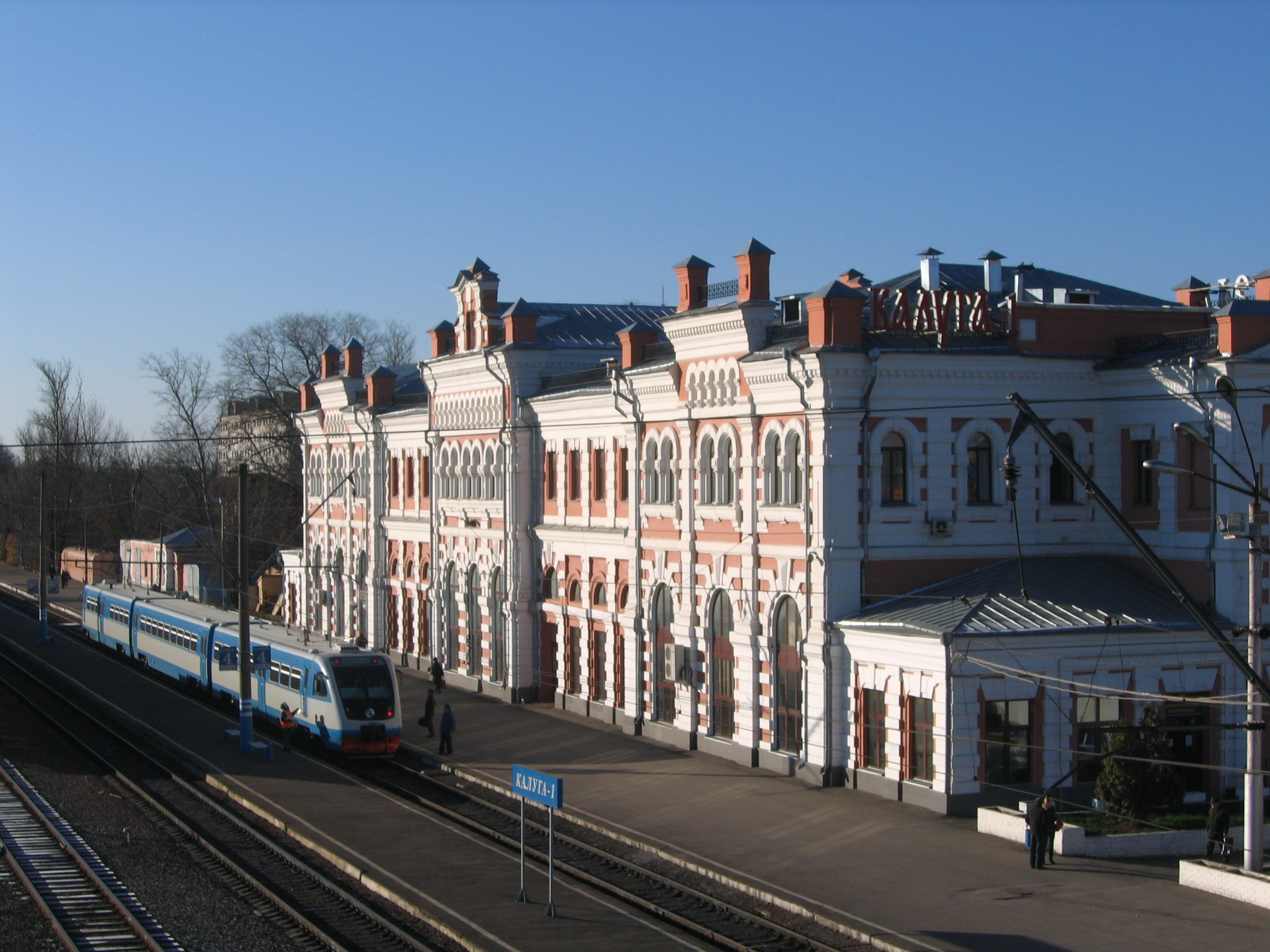 Kaluga, station building of Kaluga-1 railway station, built in 1898.